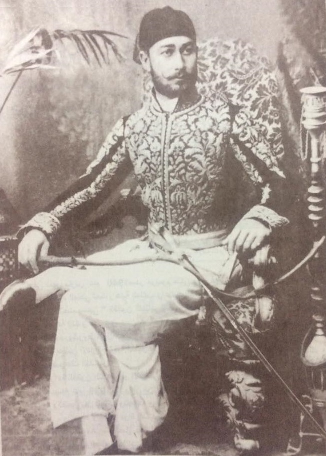 Mohamed Sa'id Paşa Zulfiqar in his youth